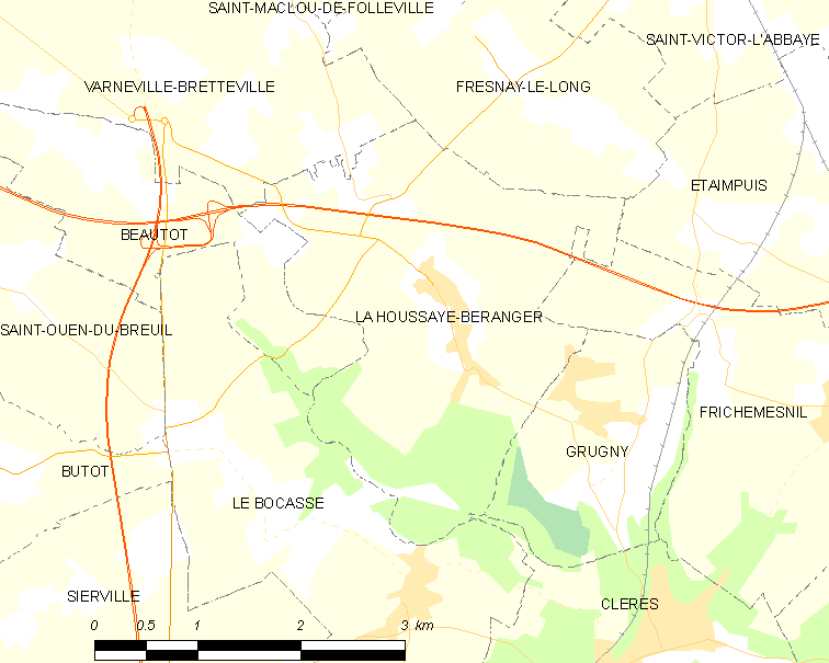 Map of French municipality La Houssaye-Béranger